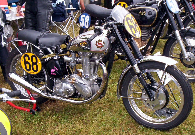 BSA Gold Star CB 34 499 cc 1949